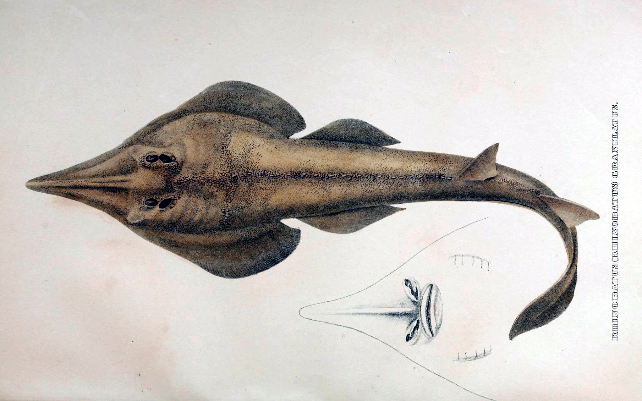 Rhinobatos granulatus Cuvier 1829